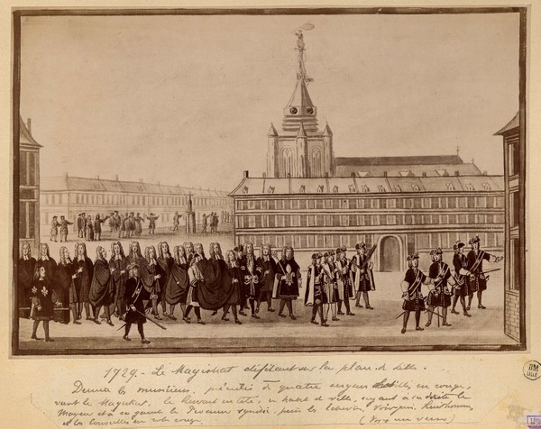 Les magistrats de Lille défilant sur la Grande Place, en 1729date : fin XIX siècle [1850/1899]dimensions : 25,9 x 17,4 cm.